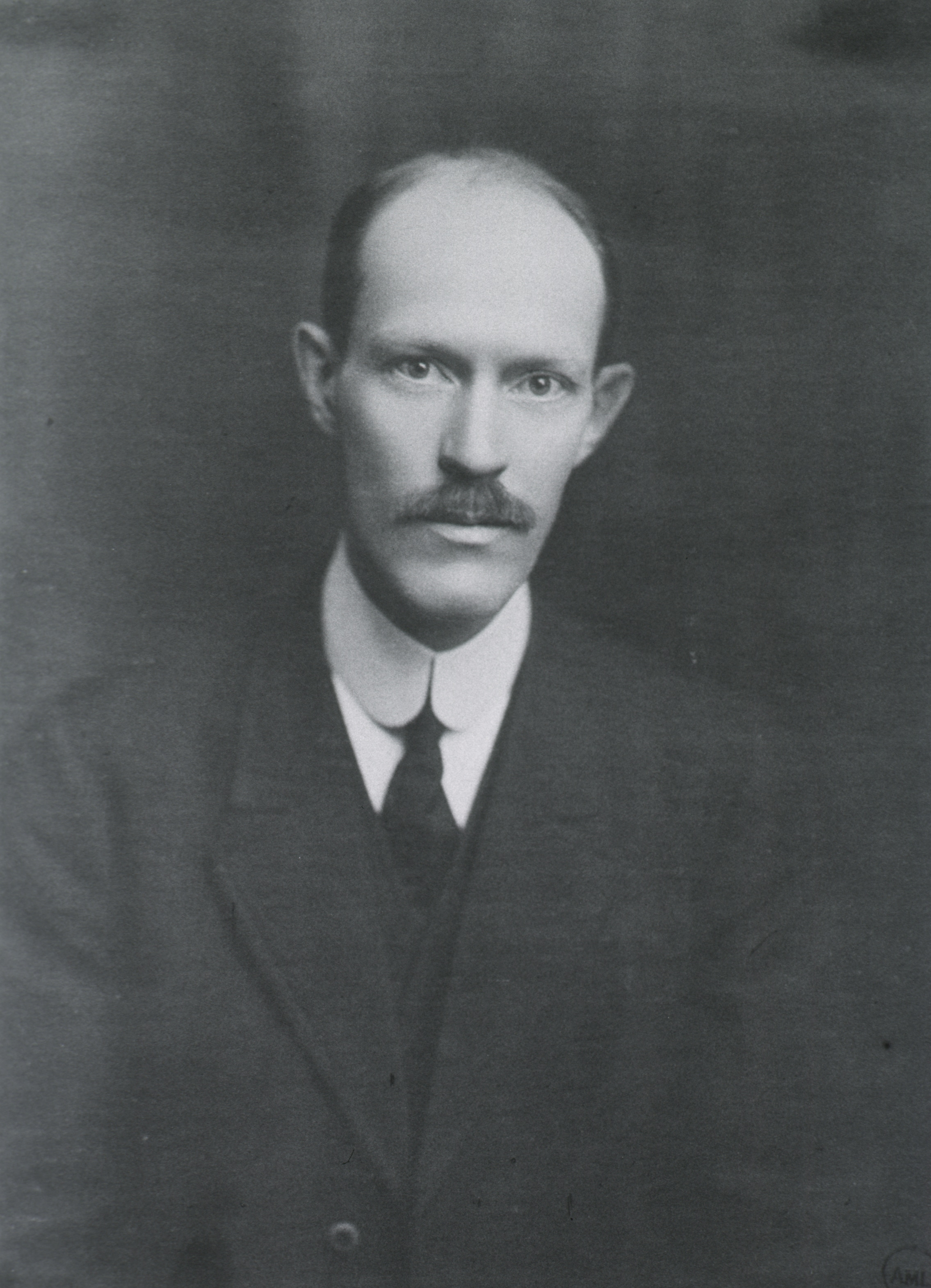 Biologist Ross Granville Harrison, Baltimore, 1911